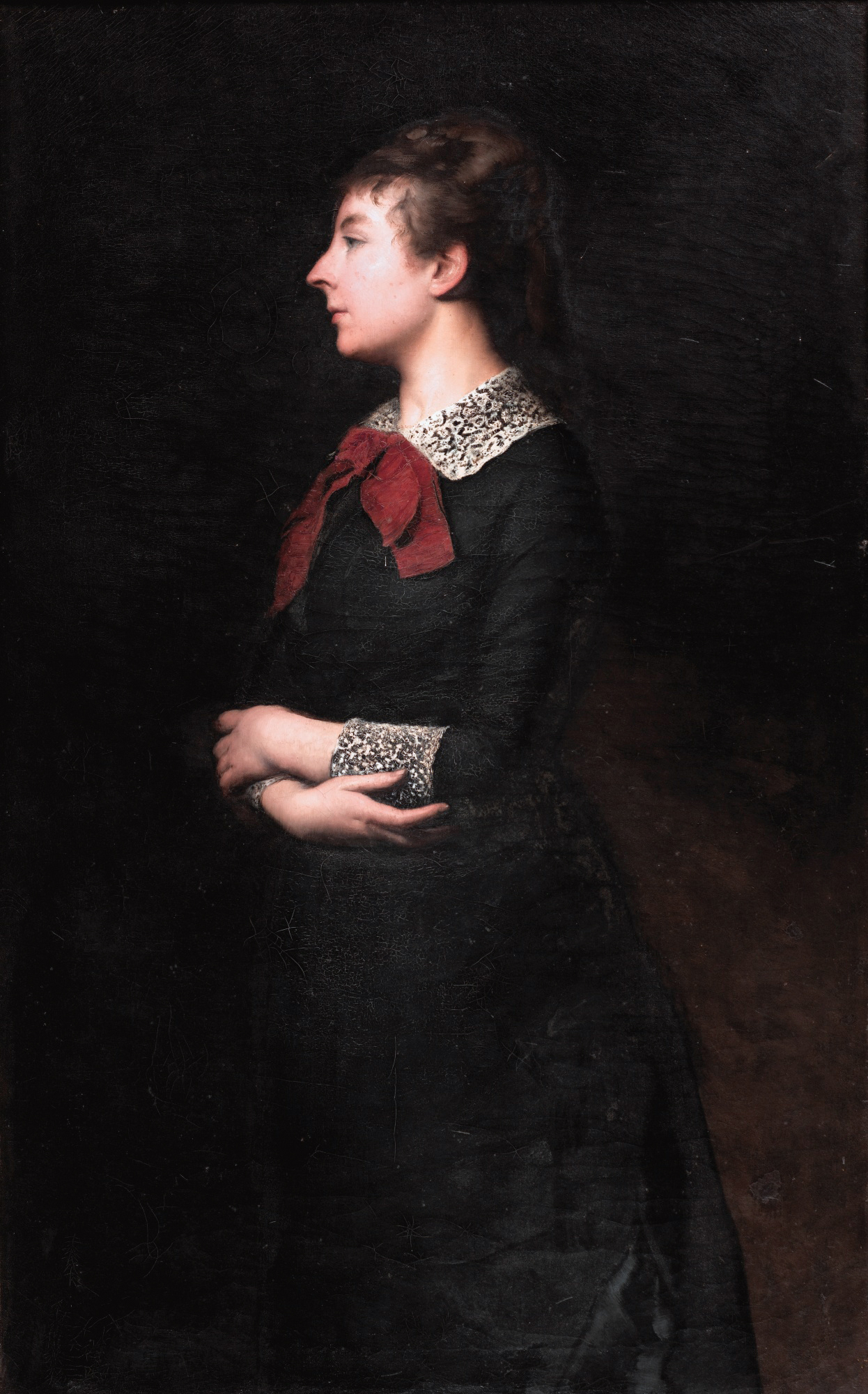 Jeanne Lebaigue oil on canvas 132,2 x 81,5 cm signed b.l.: MB de Monvel 1877-1878